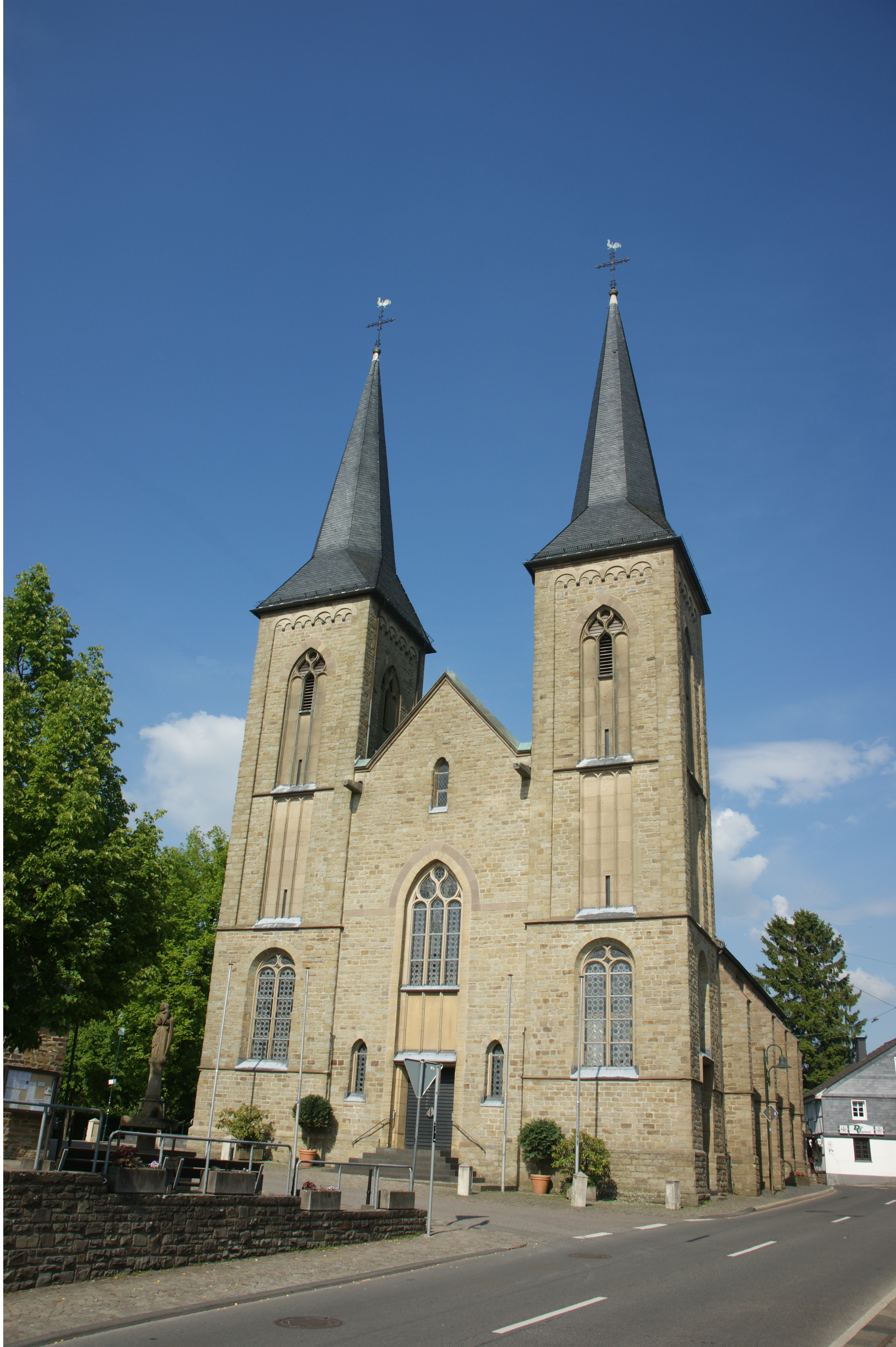 St. Mariä Heimsuchung church in Marialinden, Overath